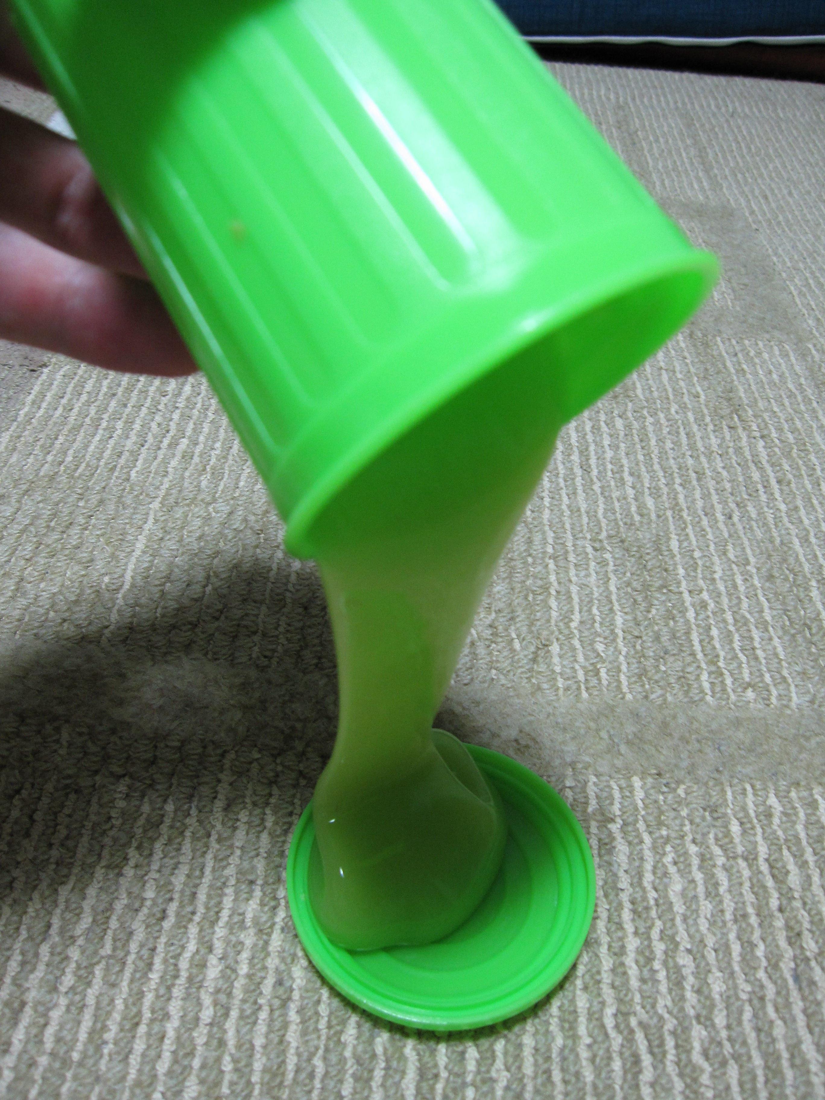 Pouring Slime out of its bucket